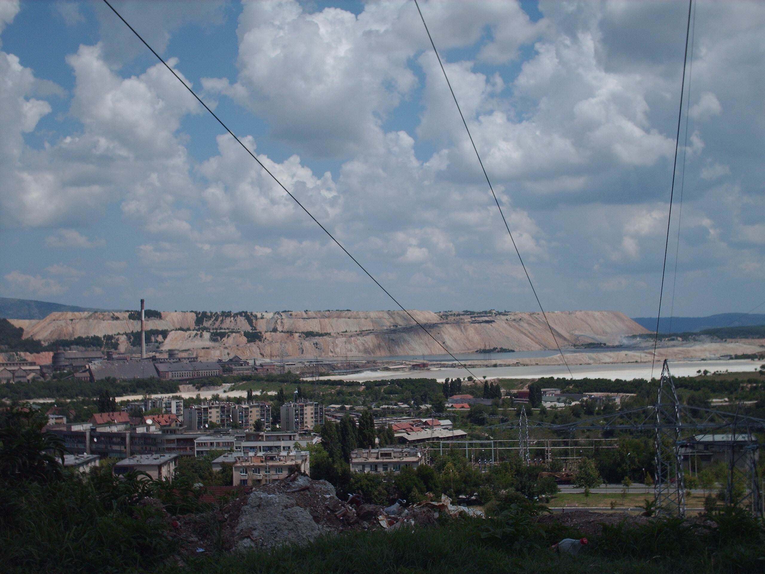 Bor